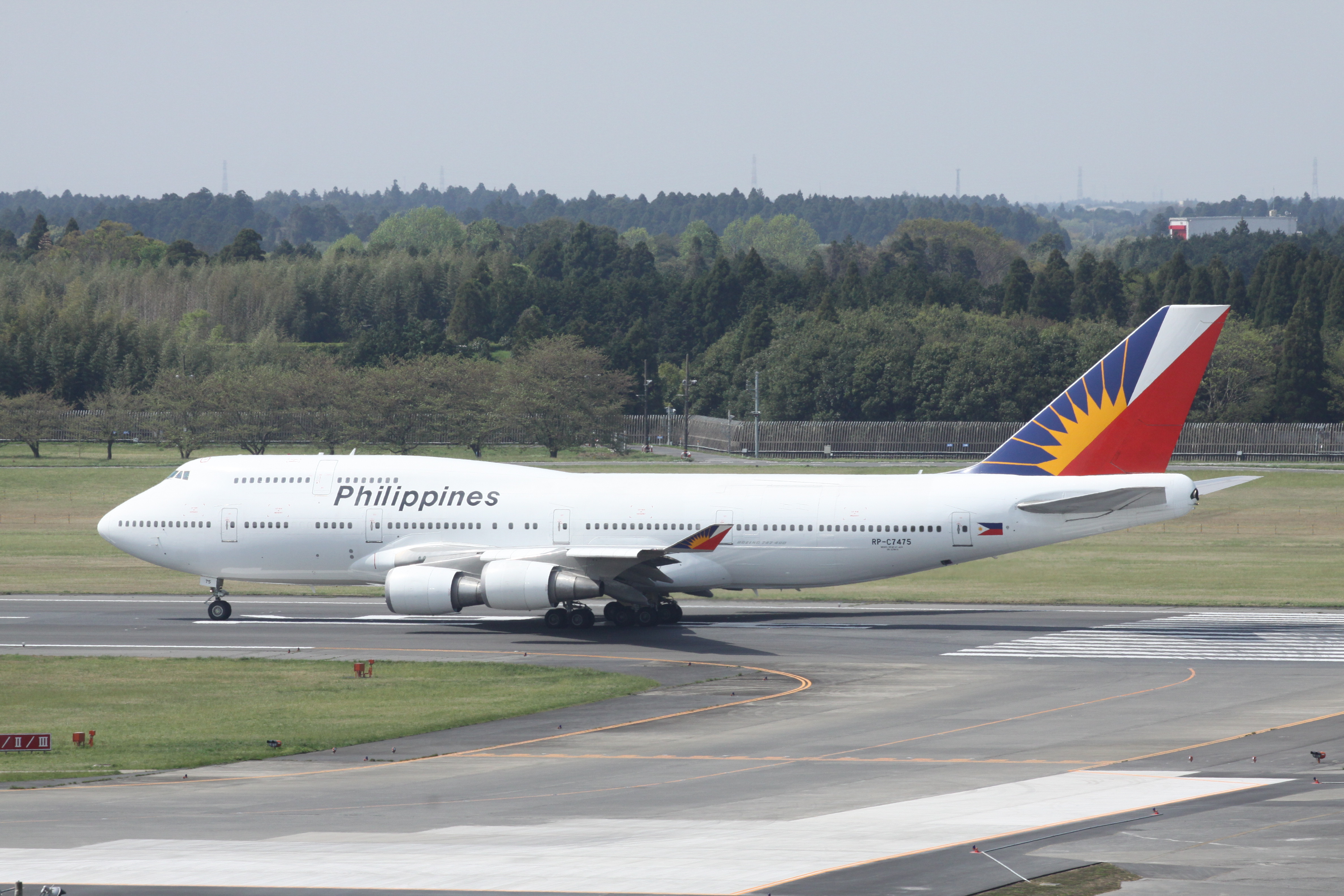 Boeing 747-469M, c/n:27663 Philippine Airlines